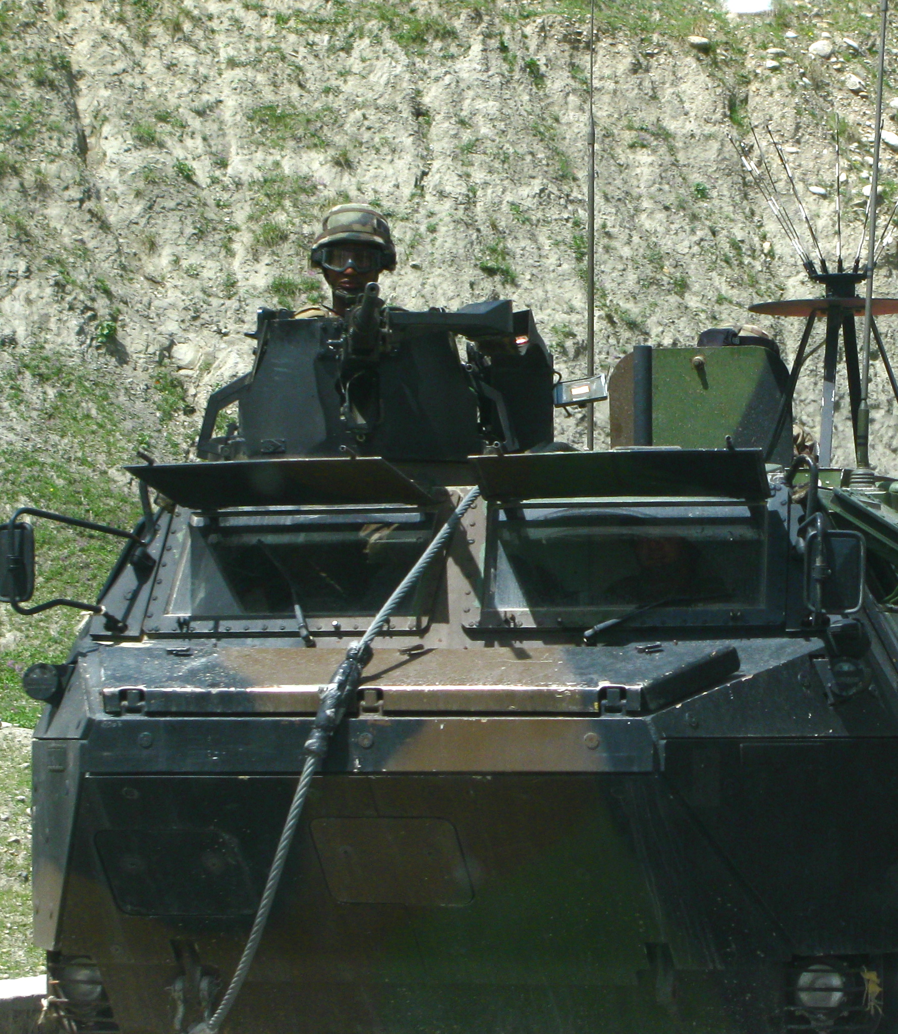 The French military patrolling near Sirobi.